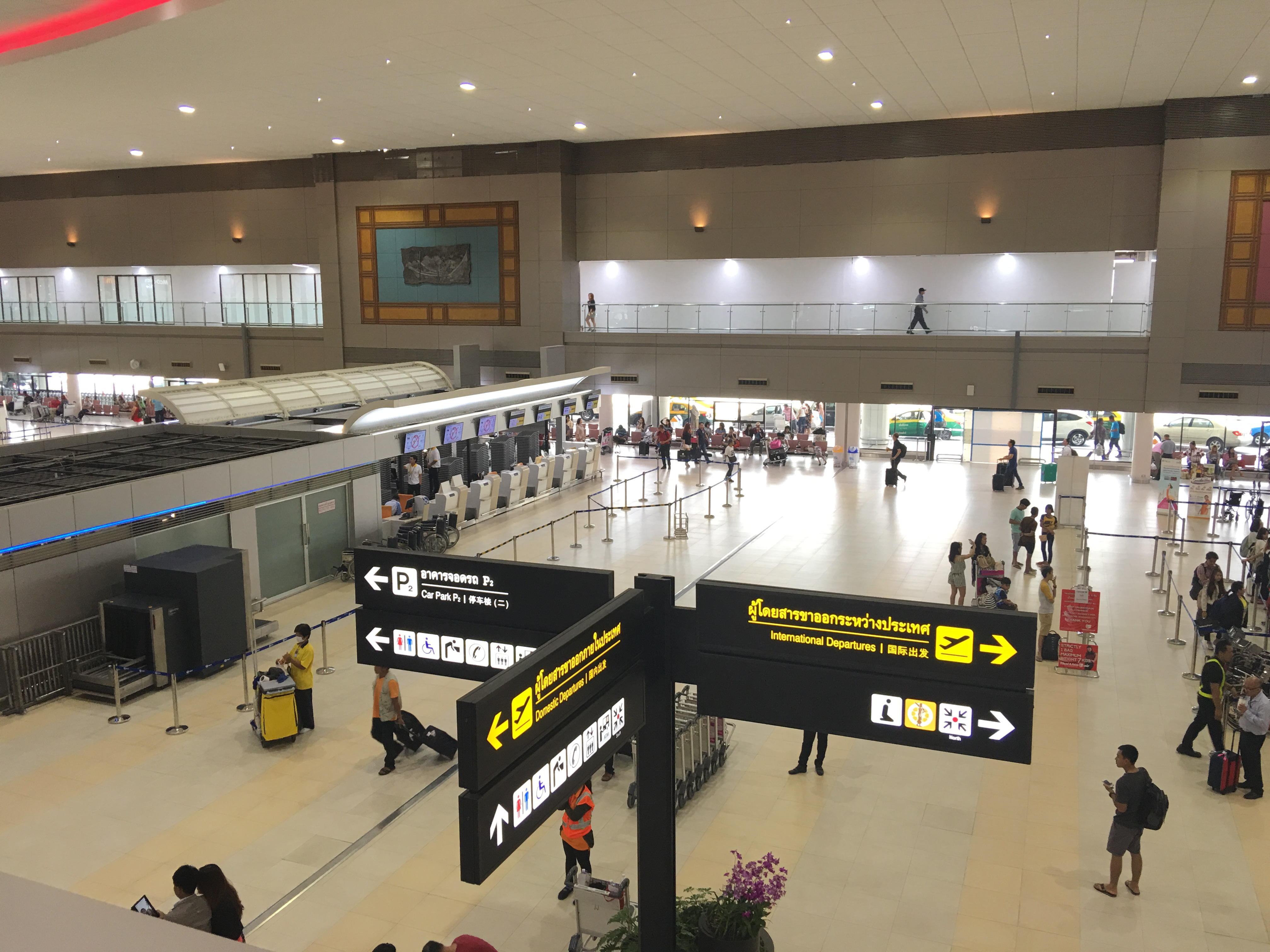 Terminal 2 of Don Muang International Airport 22 May 2016